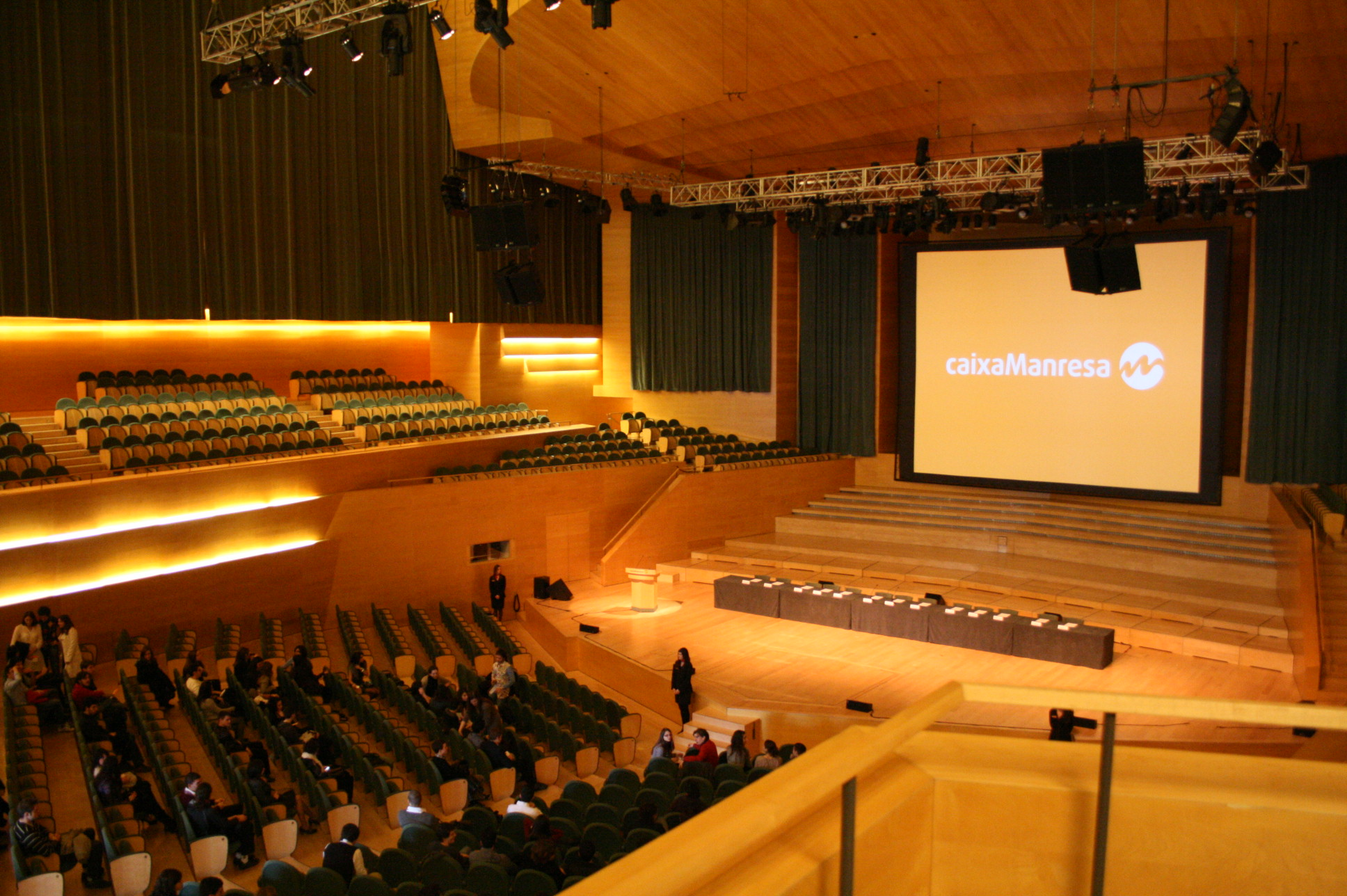 Main room of Auditori de Barcelona.